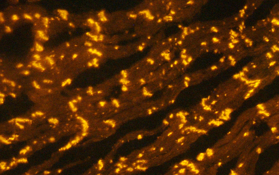 Microphotograph demostrates the distribution of connexin 43 (or GJA1) in the rat myocardium. This image was taken by V.Gurianova and L.Tumanovska in Bogomoletz Institute of Physiology using fluorescent-labeled antibodies. Connexin 43 is one of the major proteins forming gap junctions between the cells (in this case - between cardiomyocytes). The gap junctions serve for physical and functional coupling between the cells because of their ability to transport low-molecular-weight substances (such as ions and secondary messengers). Connexin 43 is widely expressed and was found in most cells forming syncytia. In the heart, it serves for synchronization of contraction. Furthermore, connexin 43 has much more functions necessary for oxidative stress response.